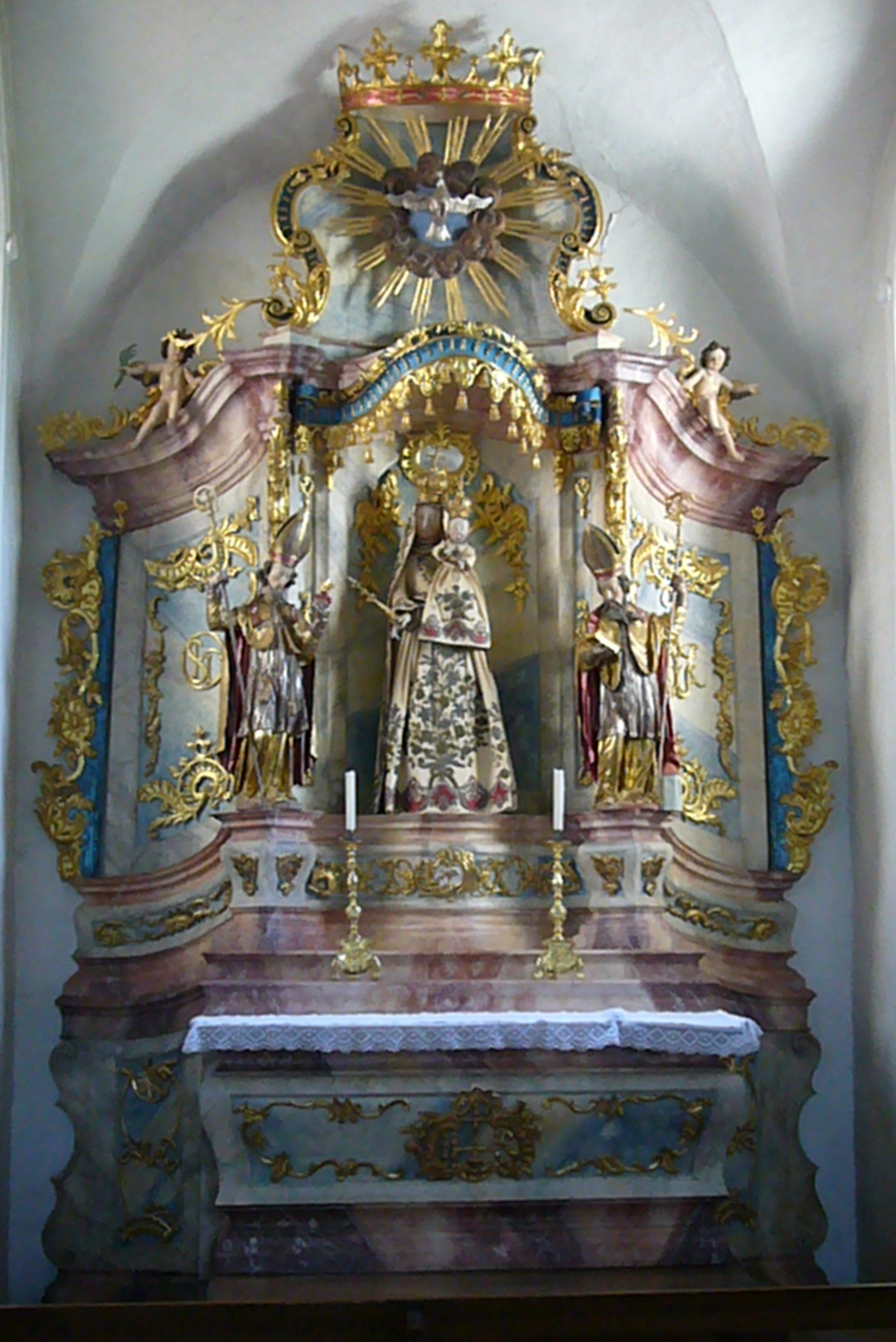 Statue of St. Mary, in the abbey church of Schönenwerd/SO, Switzerland